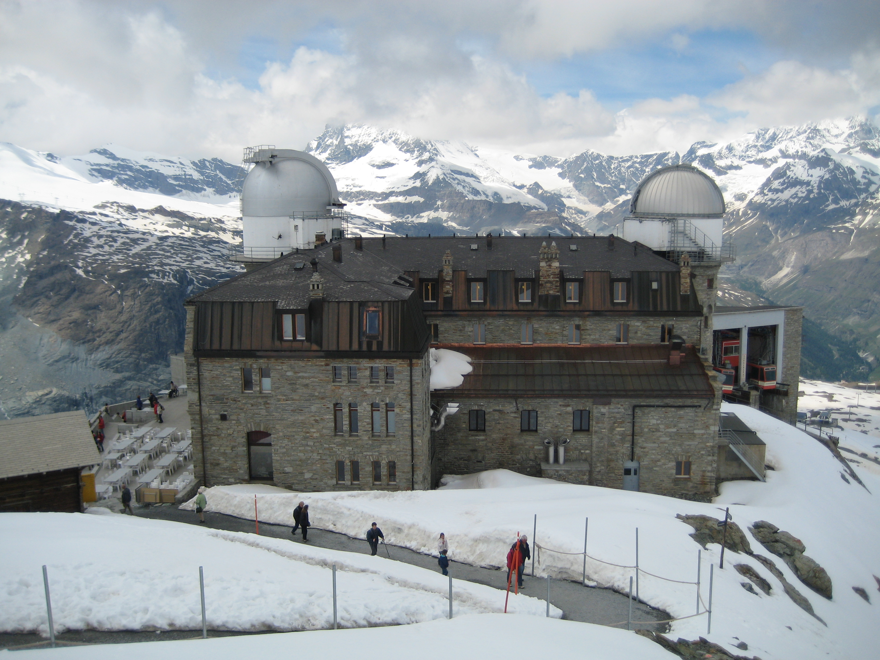 The two observatories KOSMA and TIRGO at Gornergrat, near Zermatt, Valais, Switzerland